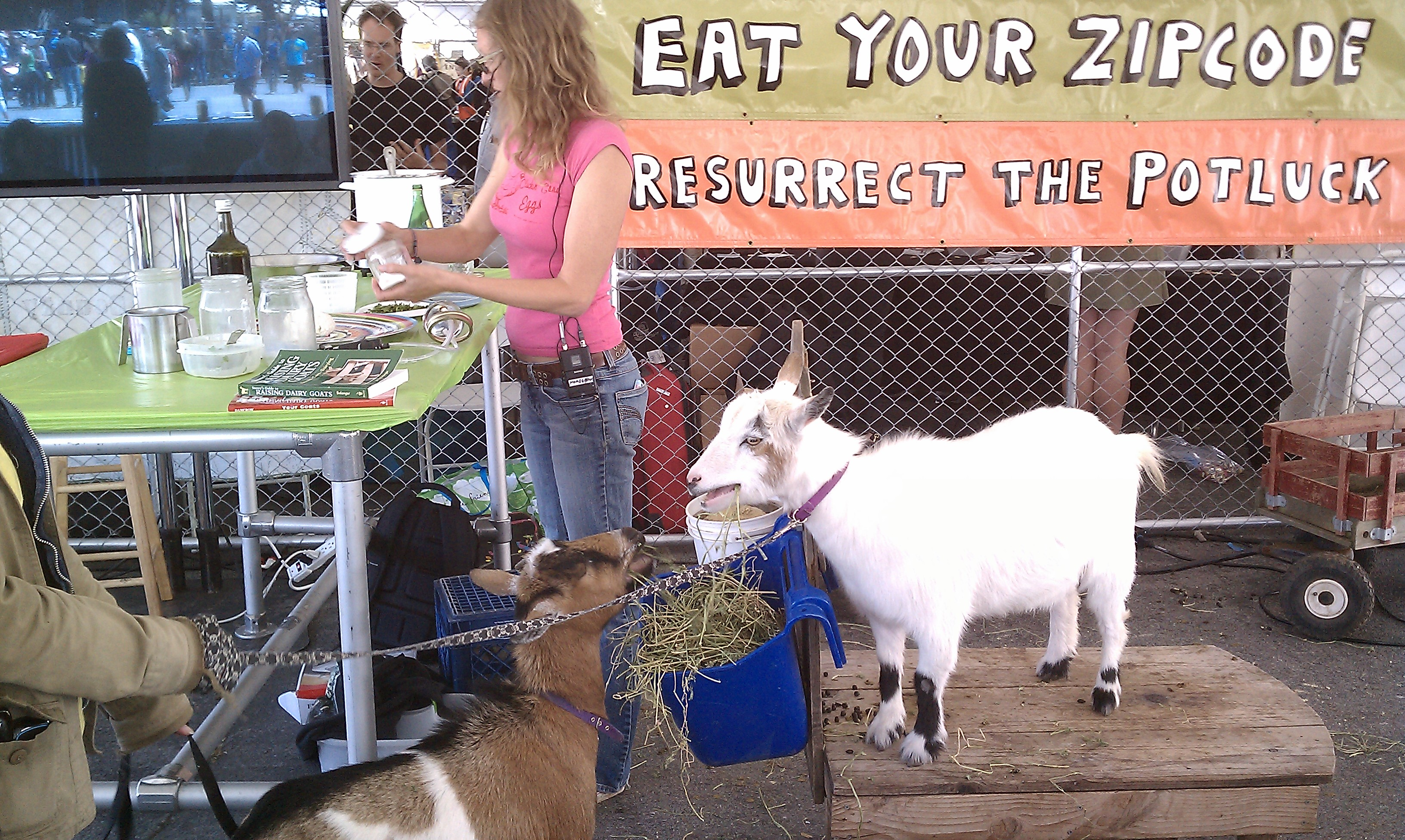 A cheesmaking workshop accompanied by pygmy or Nigerian Dwarf dairy goats.